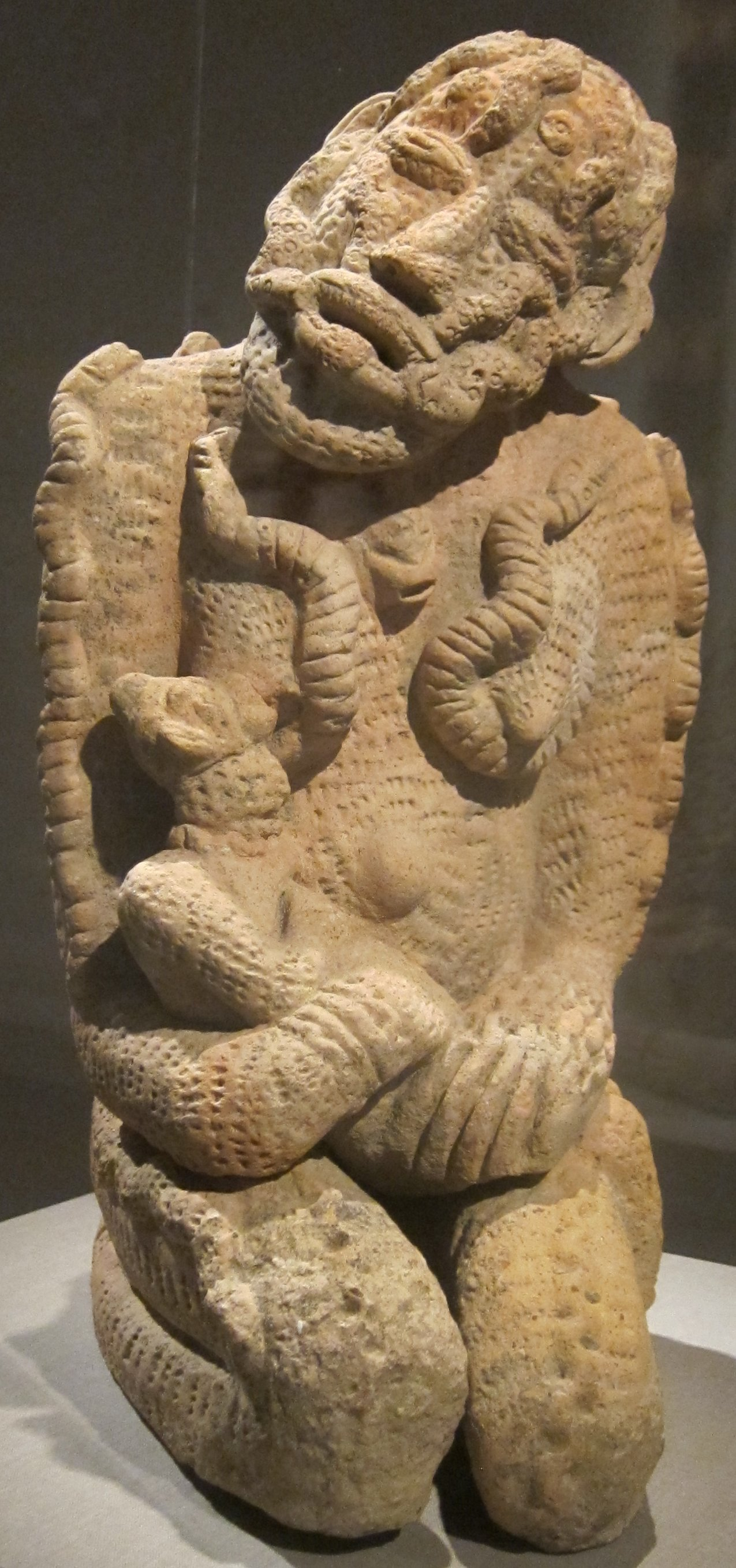 Earthenware maternity scene, Djenné, inland Niger River Delta, present-day Mali, 1100-1400, De Young Museum